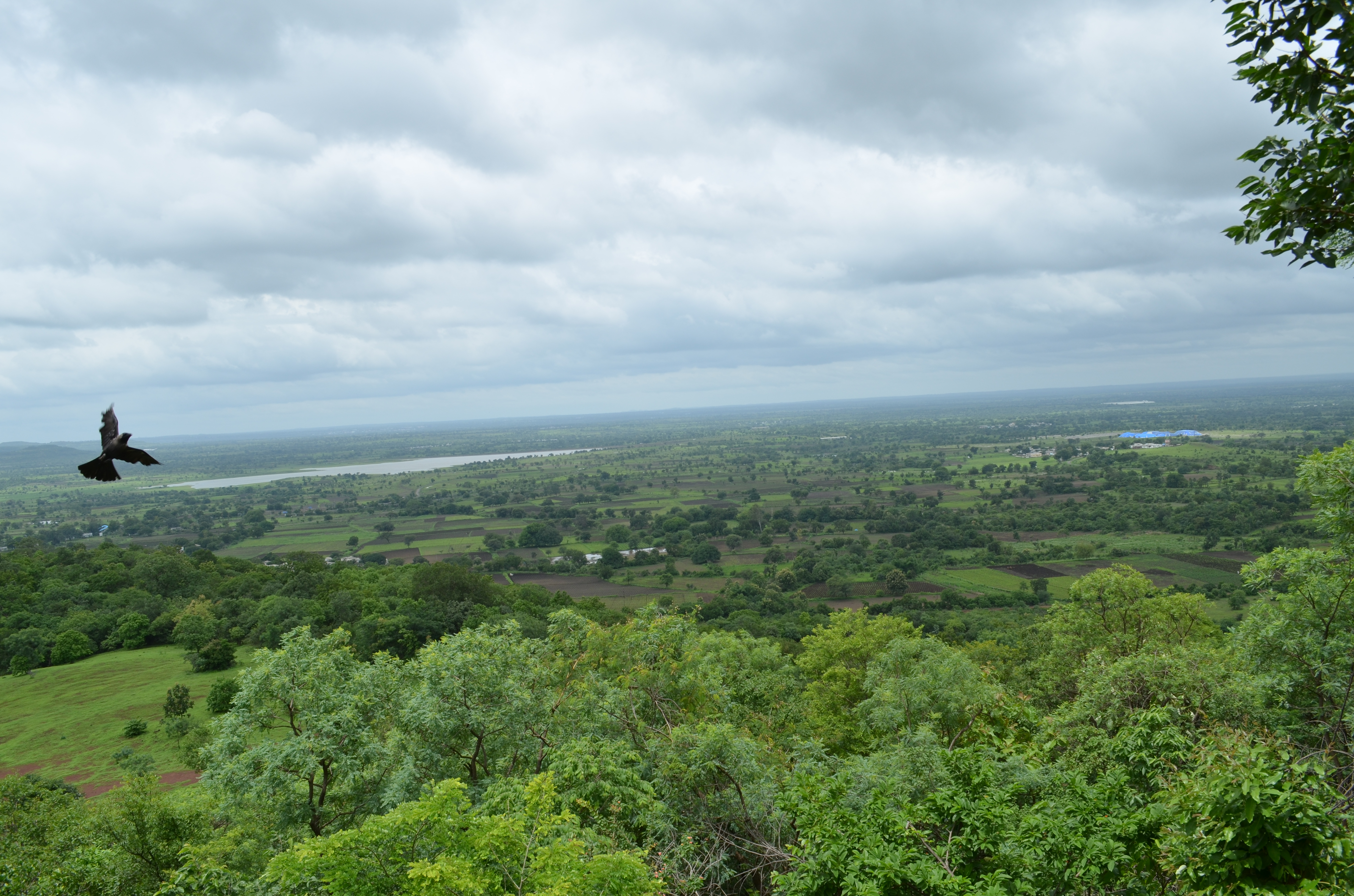 Anantha giri hills a tourist place which is located near Vikarabad, Andhra Pradesh.